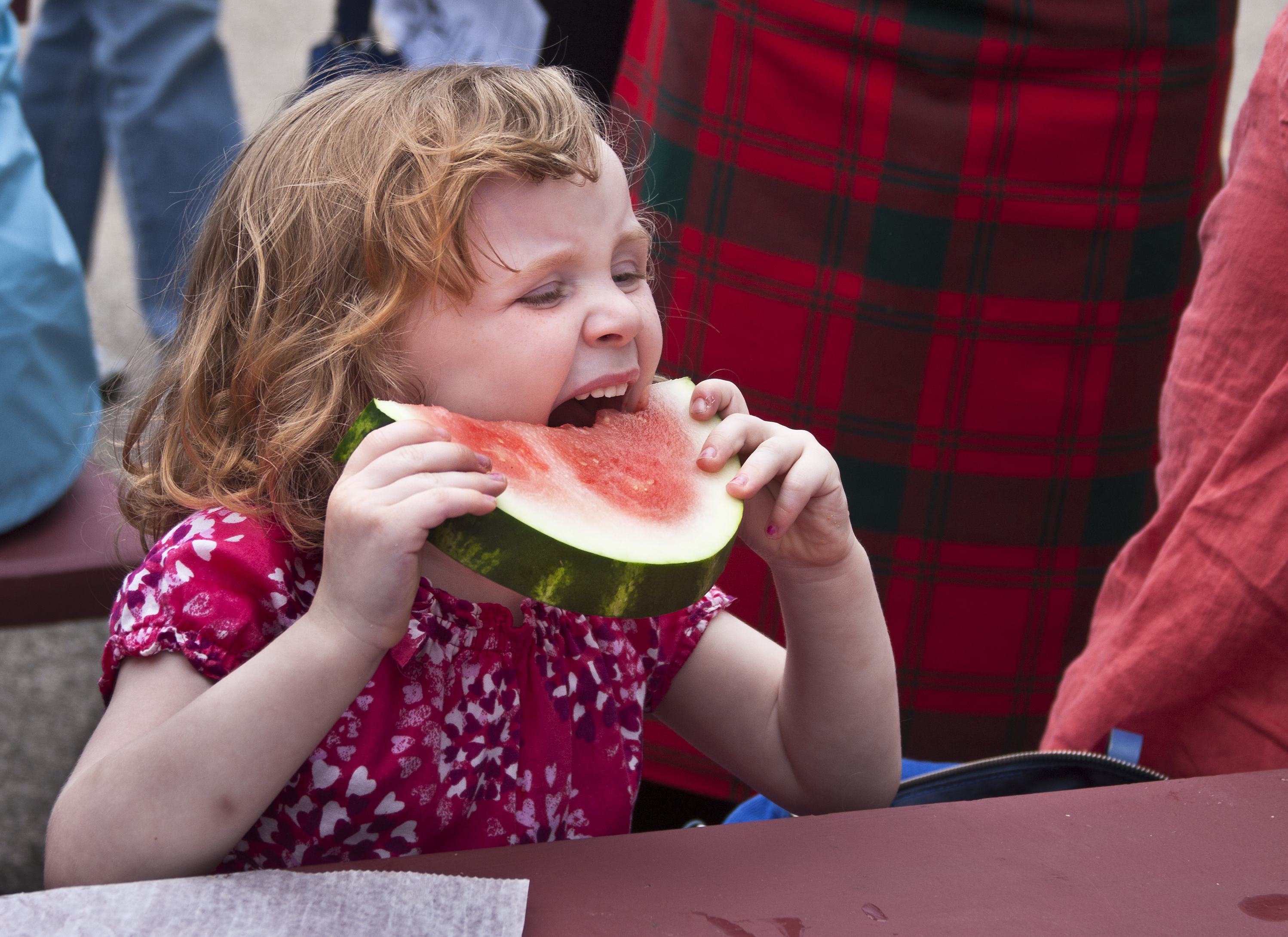 chomp, RI Scotish Highland Festival, 2012-06-09